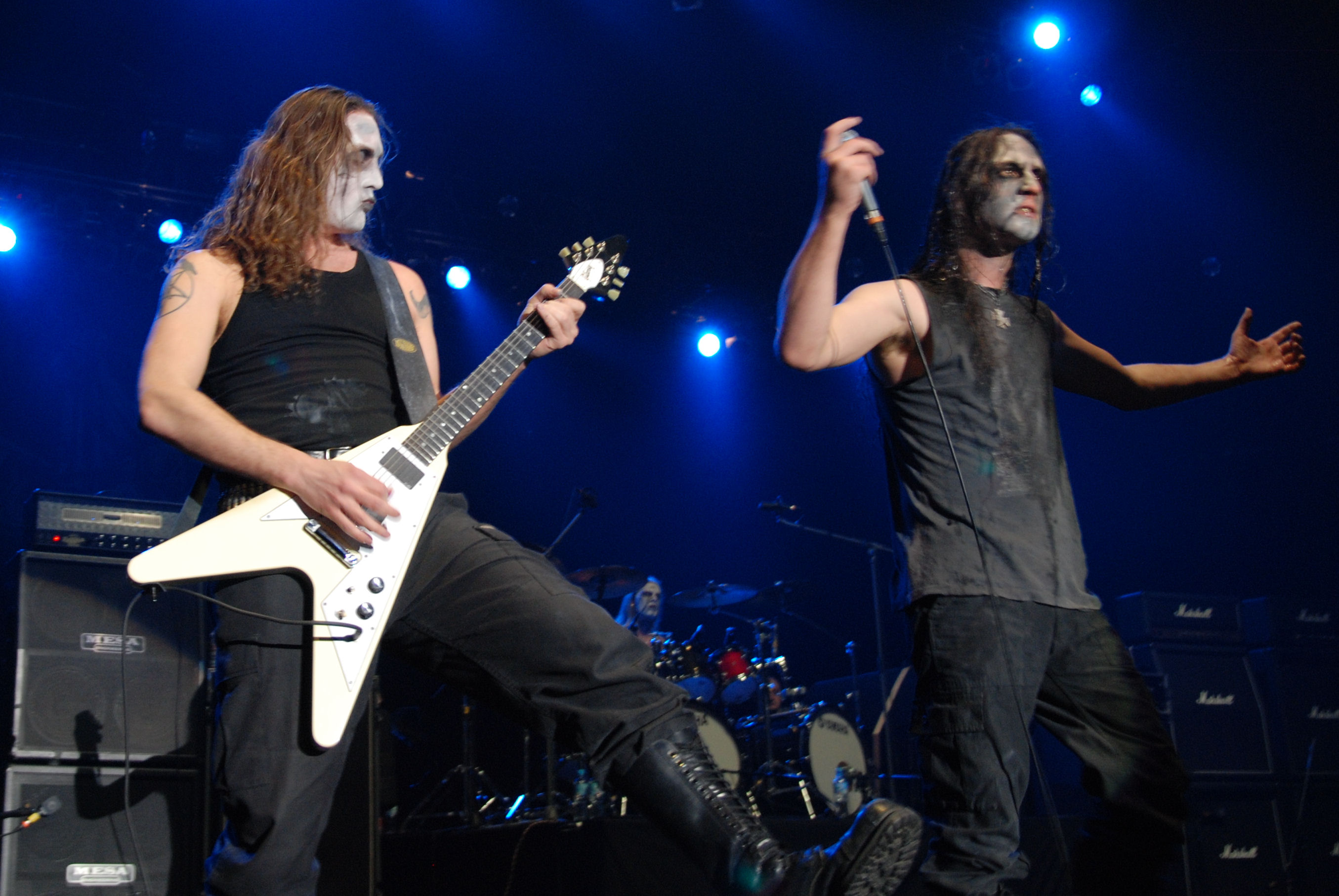 Marduk during Metalmania 2008 festival